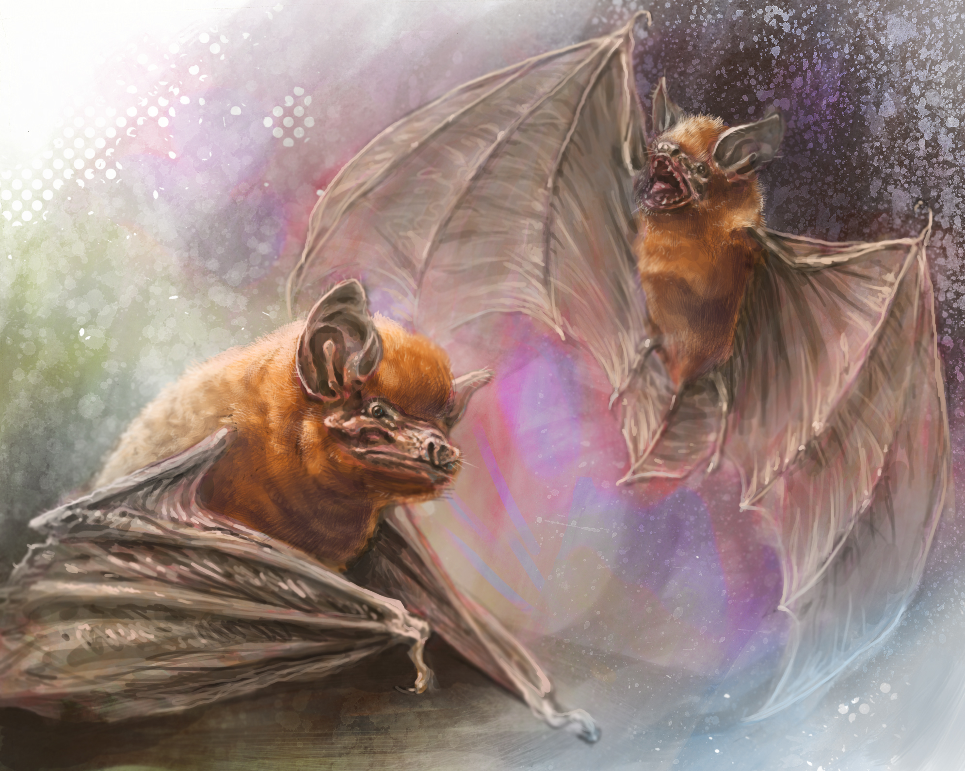 Scientific illustration of the bat Miniopterus manavi inhabiting central-eastern Madagascar. Digital illustration based on a previous pencil drawing. Made with advice of Alistair Ian Spearing Ortiz, scientific translator and active participant in the WikiProject Mammals of Wikipedia in Catalan.